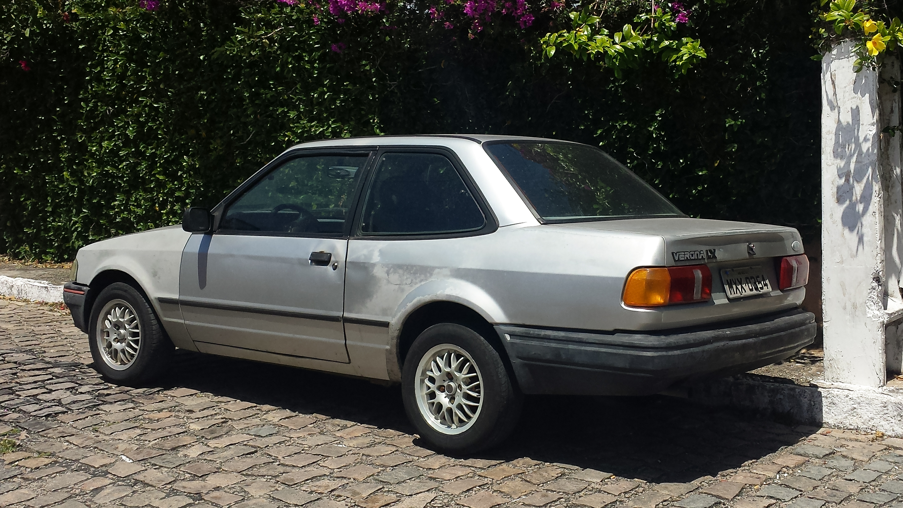 Ford Verona